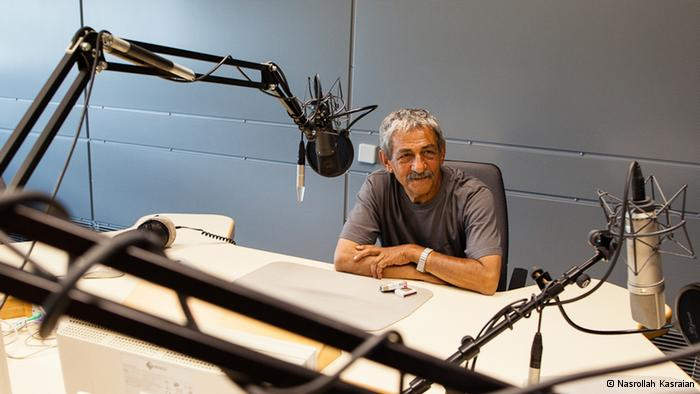 Interview with Kasraian in Tehran.